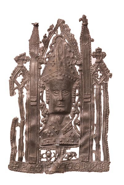 Photograph of a Pilgrim badge of St Thomas Becket early 12th century-late 12th century